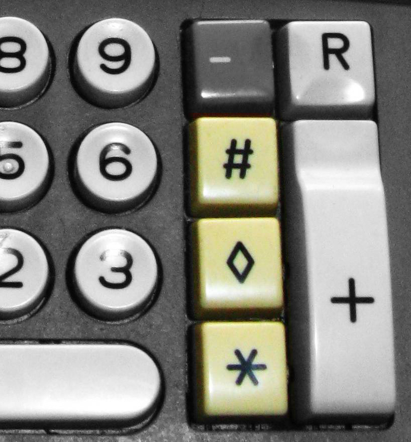 Right part of the keyboard of a desktop calculator produced in Germany about 1970 (Walther Multa 32). Detail of the original photo.